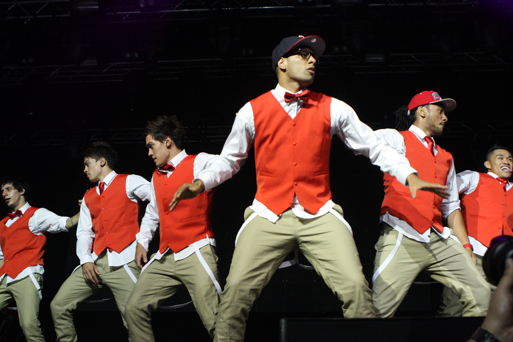 Justice Crew Performs at One Direction's Up All Night Tour in Sydney, April 2012.